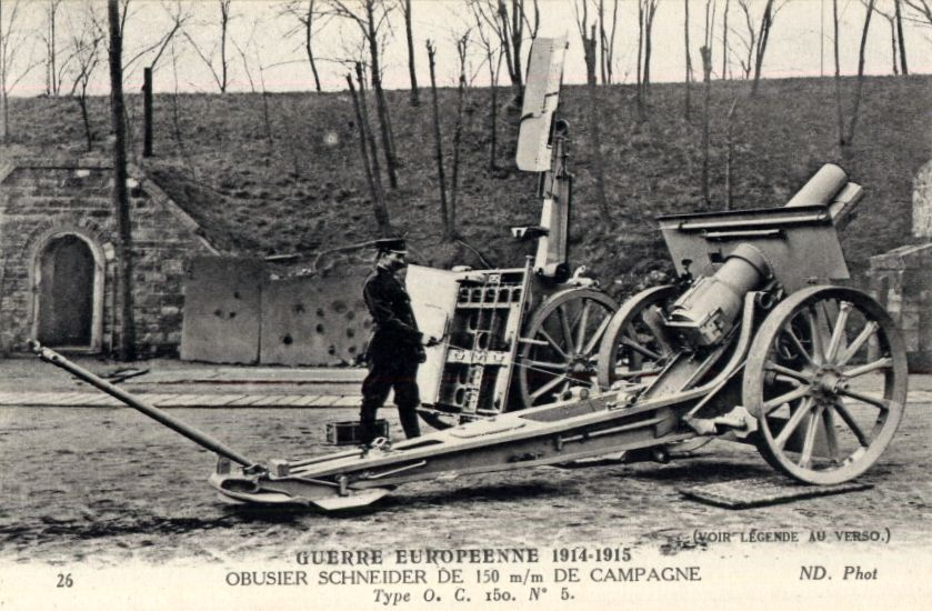 Schneider-Canet 150 mm field howitzer M. 1910